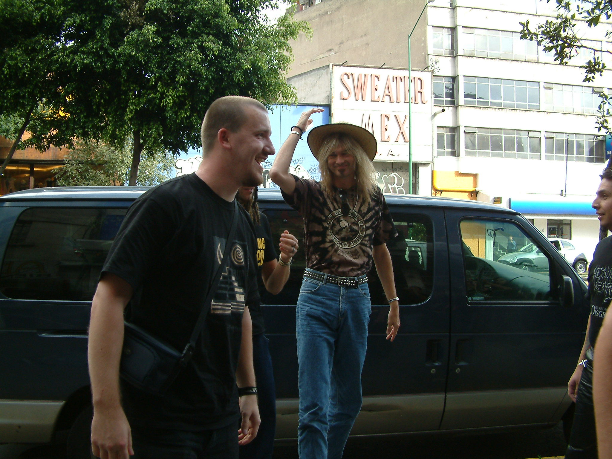 Davy Mickers and Arjen Anthony Lucassen arriving to the Rock Shop in Mexico City.